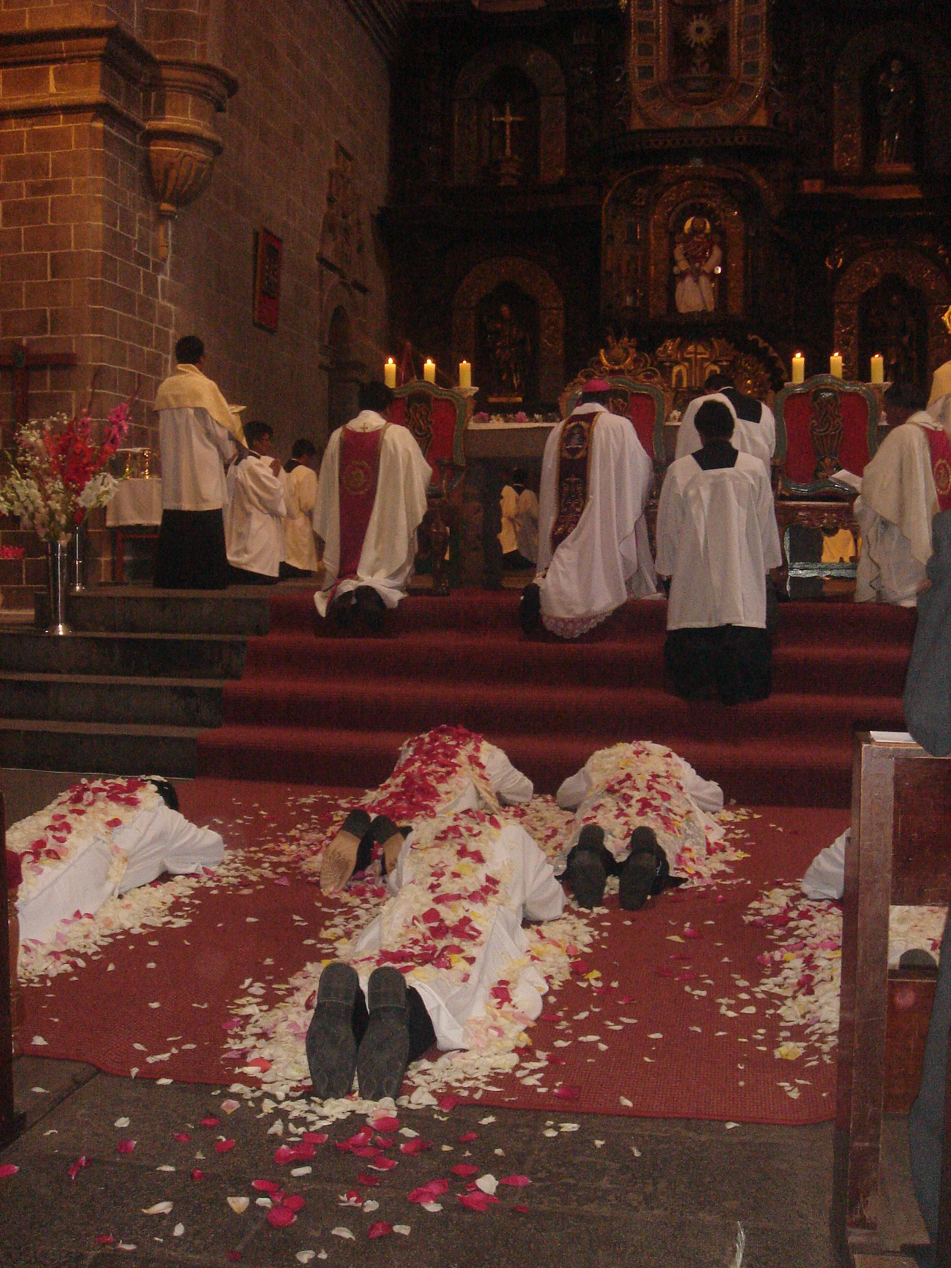 Roman Catholic Ordination. Cathidral of Juli, Puno Region (Peru).